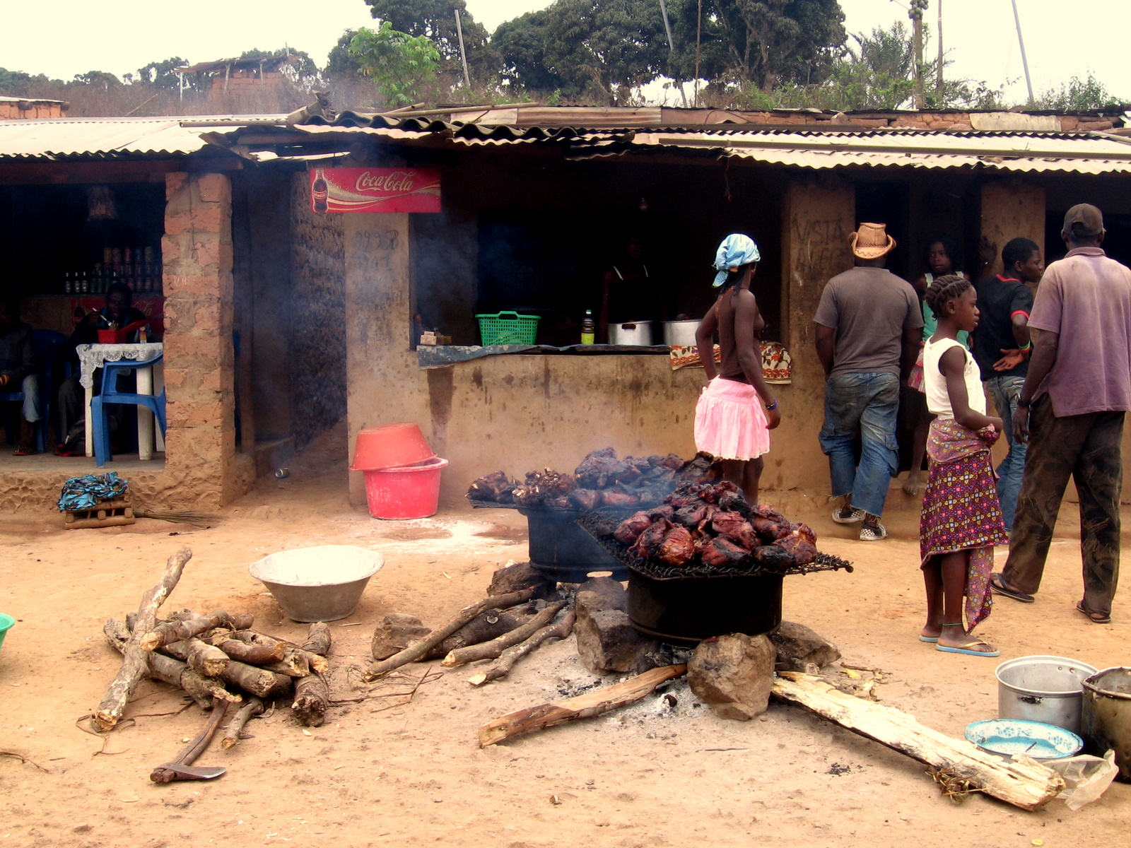 A typical street scene in an unknown Angolan village, Angola